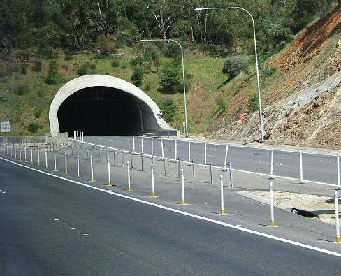 Heysen Tunnel, SE Expressway, Adelaide, South Australia